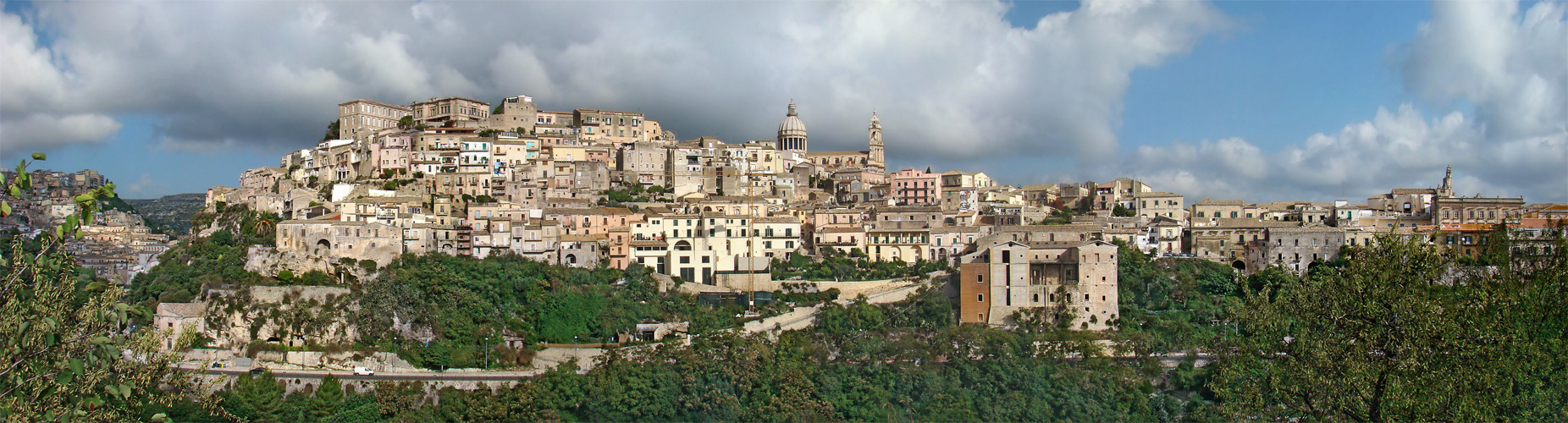 Ragusa Ibla, Sicily, Italy.